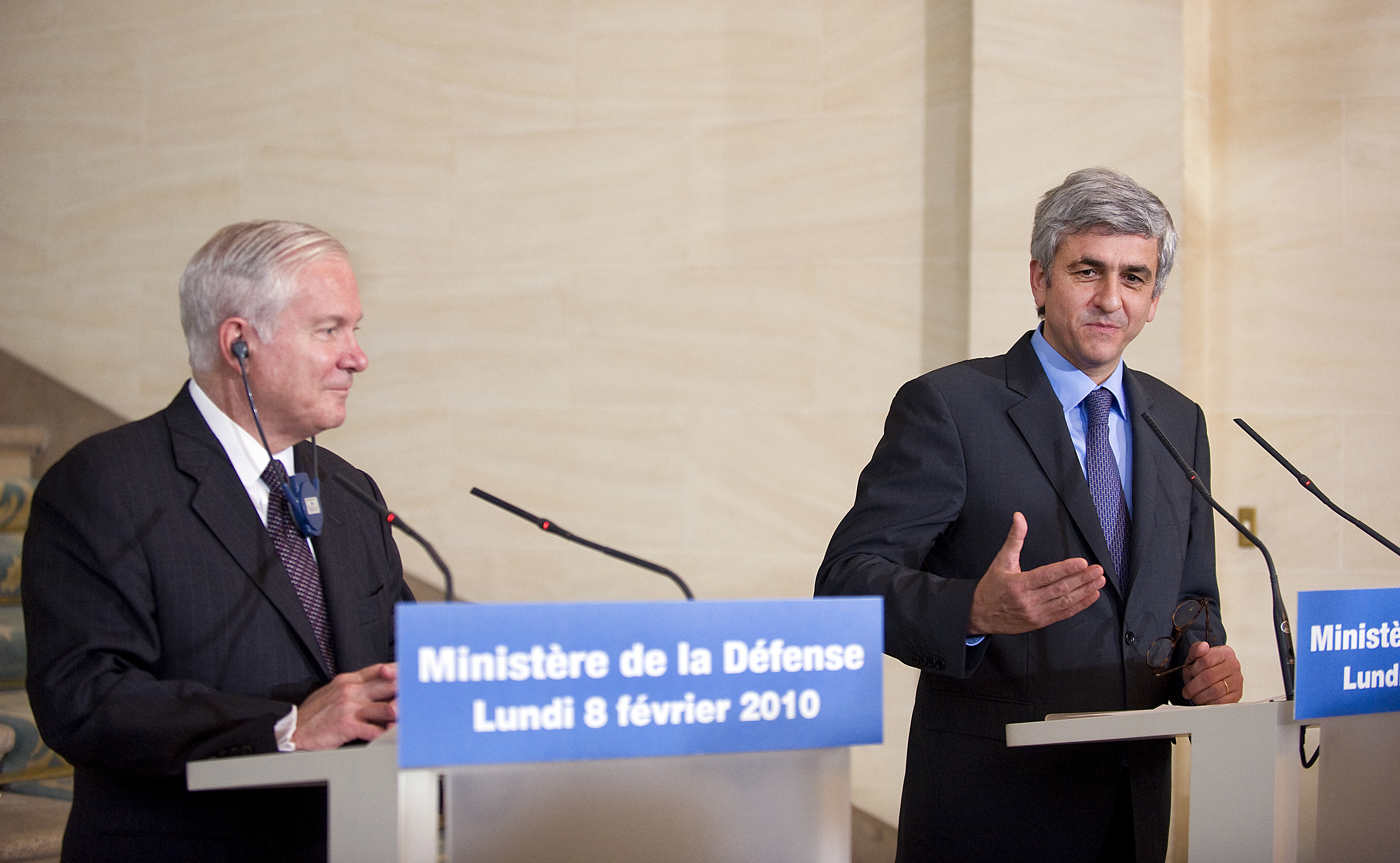 U.S. Defense Secretary Robert M. Gates and French Defense Minister Herve Morin conduct a joint press conference in Paris, Feb. 8, 2010.